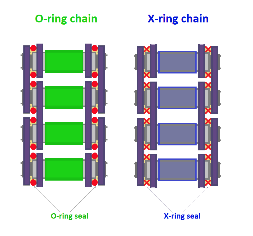 Diagram of X-ring and O-ring chains showing difference between them. The seals are in red to show the difference